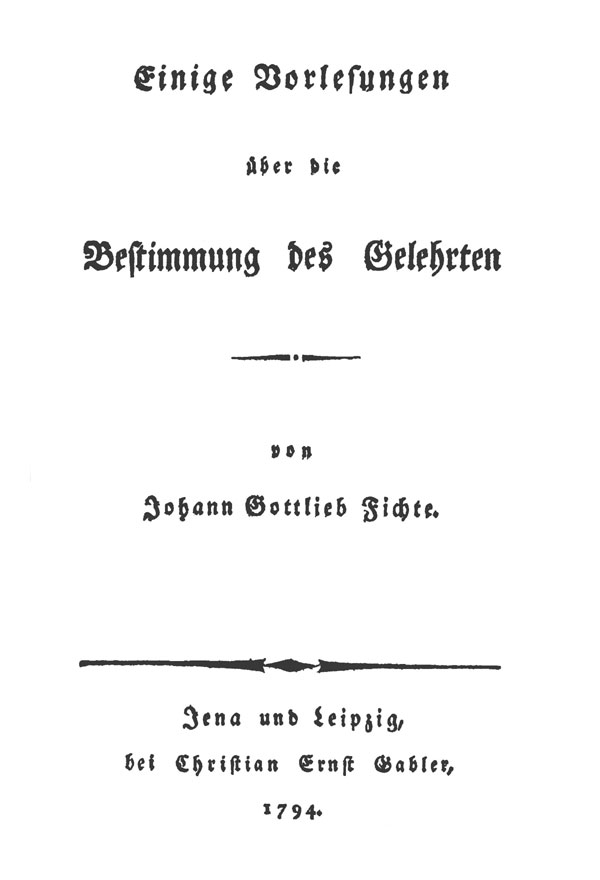 Title page